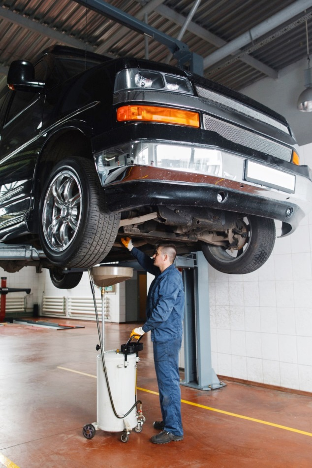 Change engine oil and transmission inspection